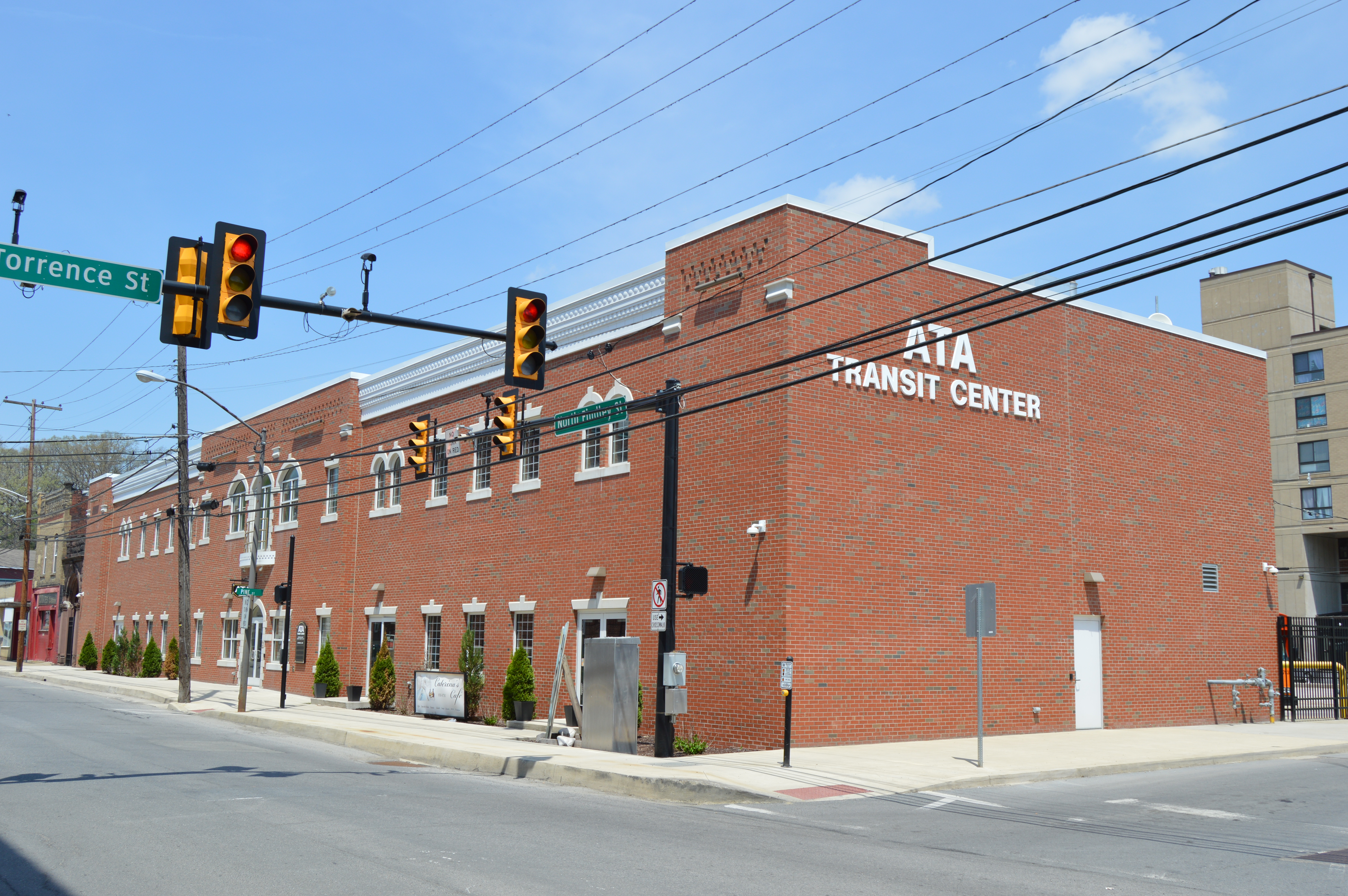 Front and southern end of the ATA Transit Center, located on the northeastern corner of the junction of Findley and Torrence Streets in downtown Punxsutawney, Pennsylvania, United States. It occupies the site of the former Jefferson Theater, which was built in 1905 and listed on the National Register of Historic Places in 1981; although destroyed, it has not yet been removed from the Register.